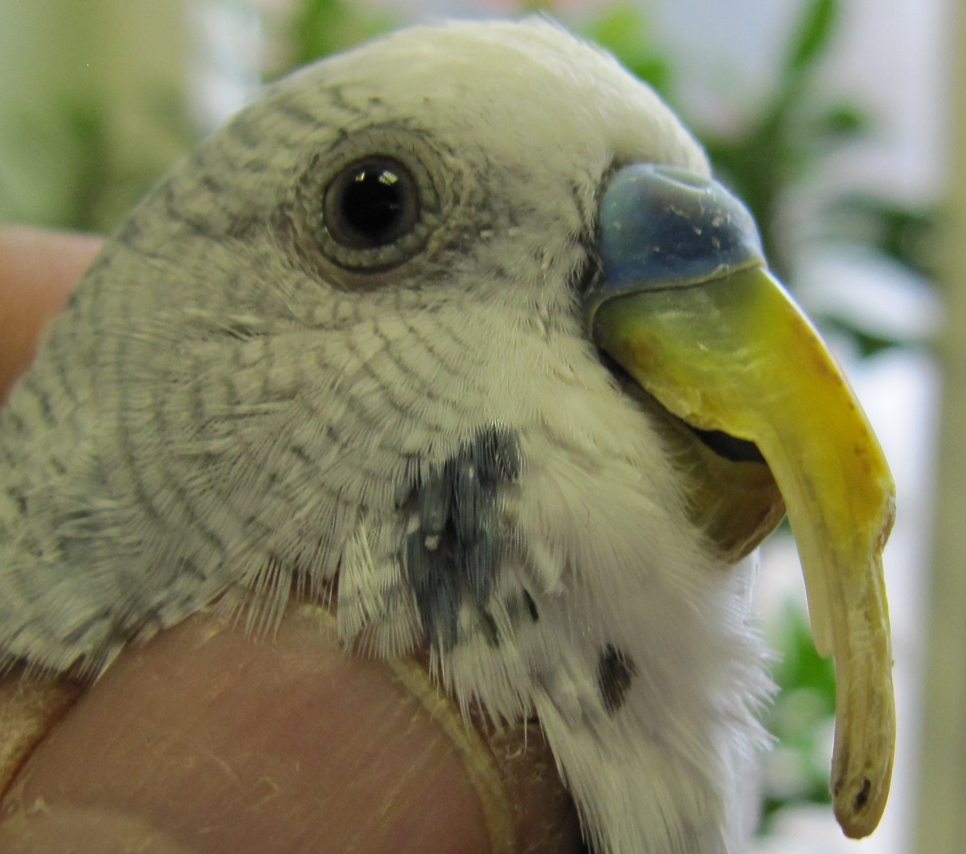 excessive bill growth in a budgerigar